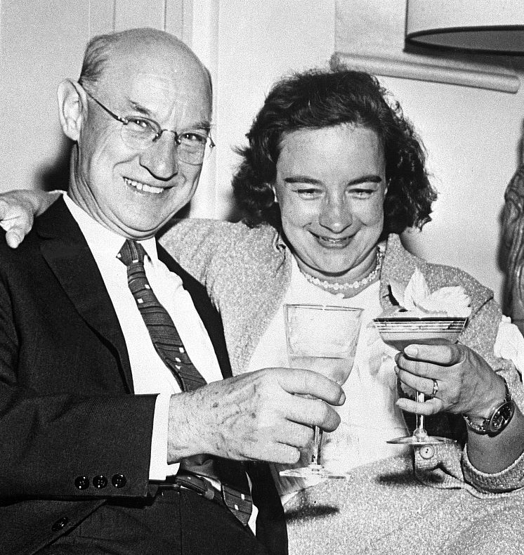 1964 Press Photo Jerrie Mock 1st woman to fly around the globe alone (with father)